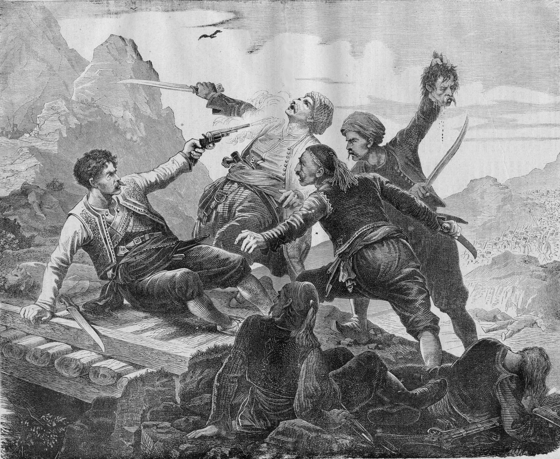 "Death of Vojvoda Trifko", illustration in Srbadija, sv. 5, 72